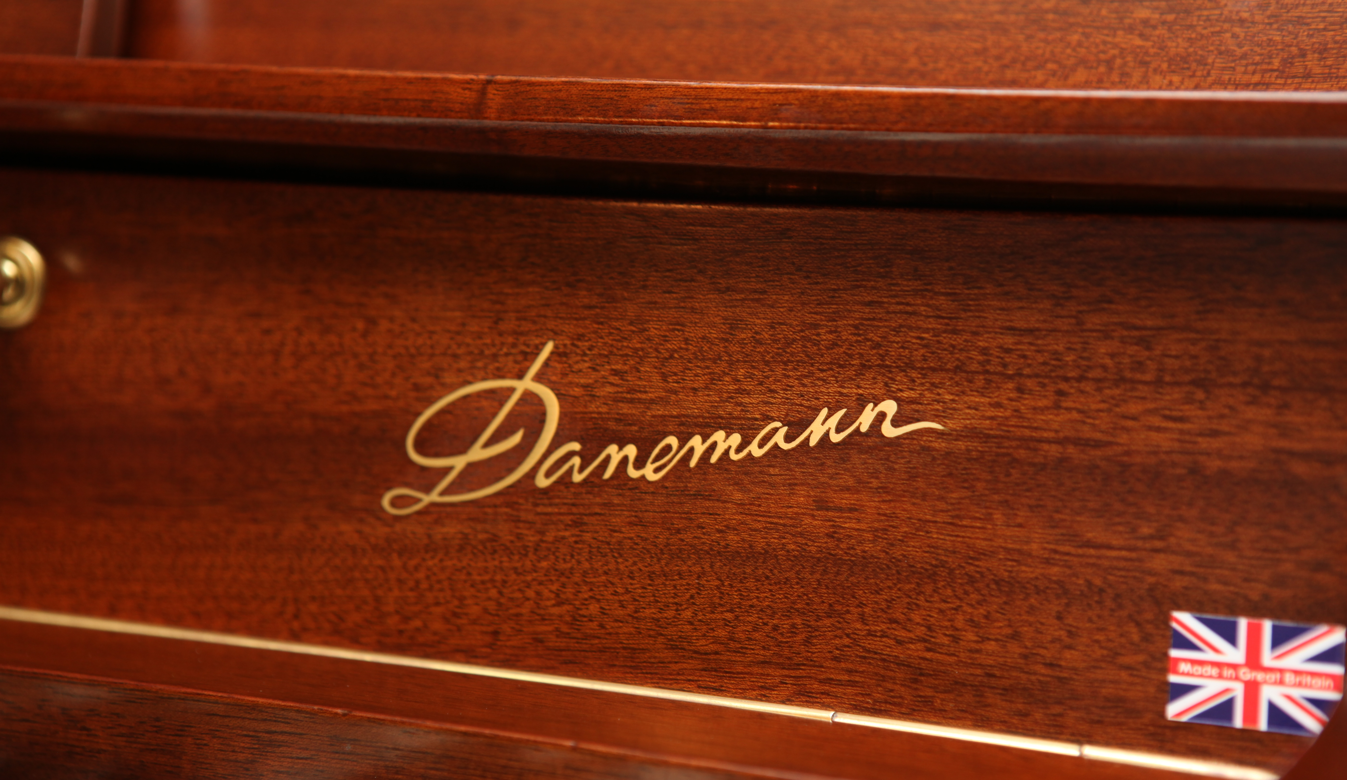 Found on most Danemann Grand and upright pianos